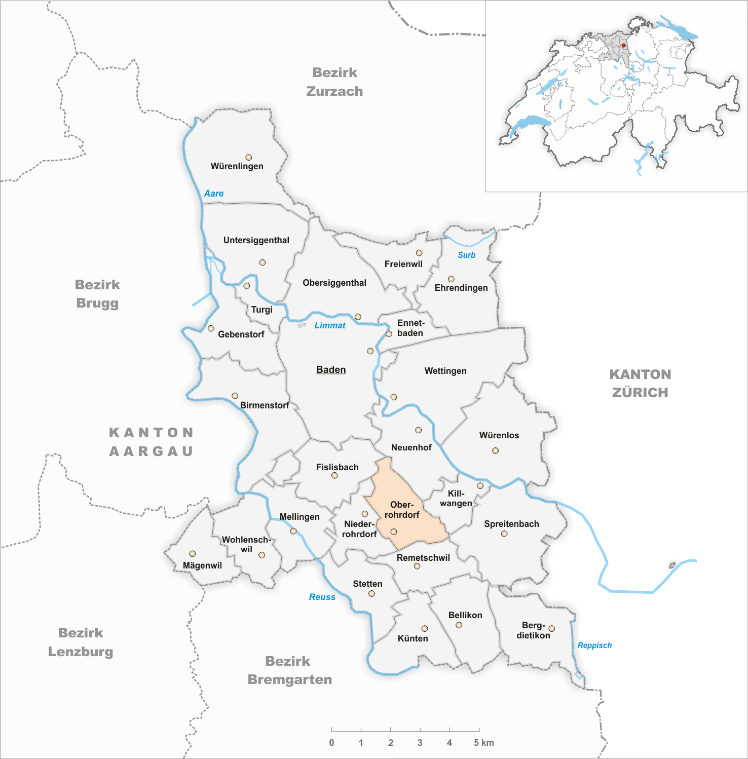 Municipality Oberrohrdorf